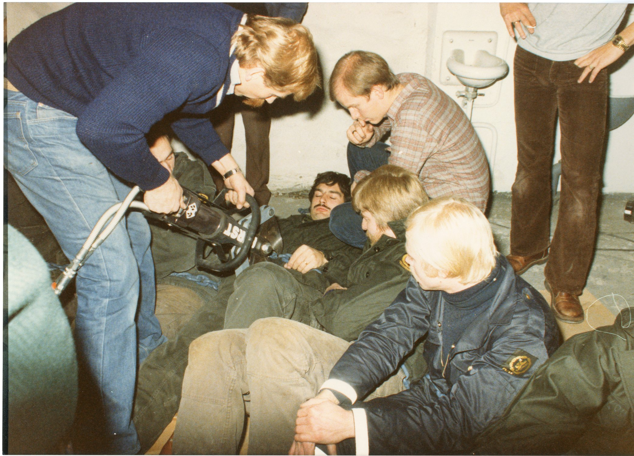 Image from National Archives of Norway's Flickr-Album "Protest" (all images marked with "No known copyright restrictions")